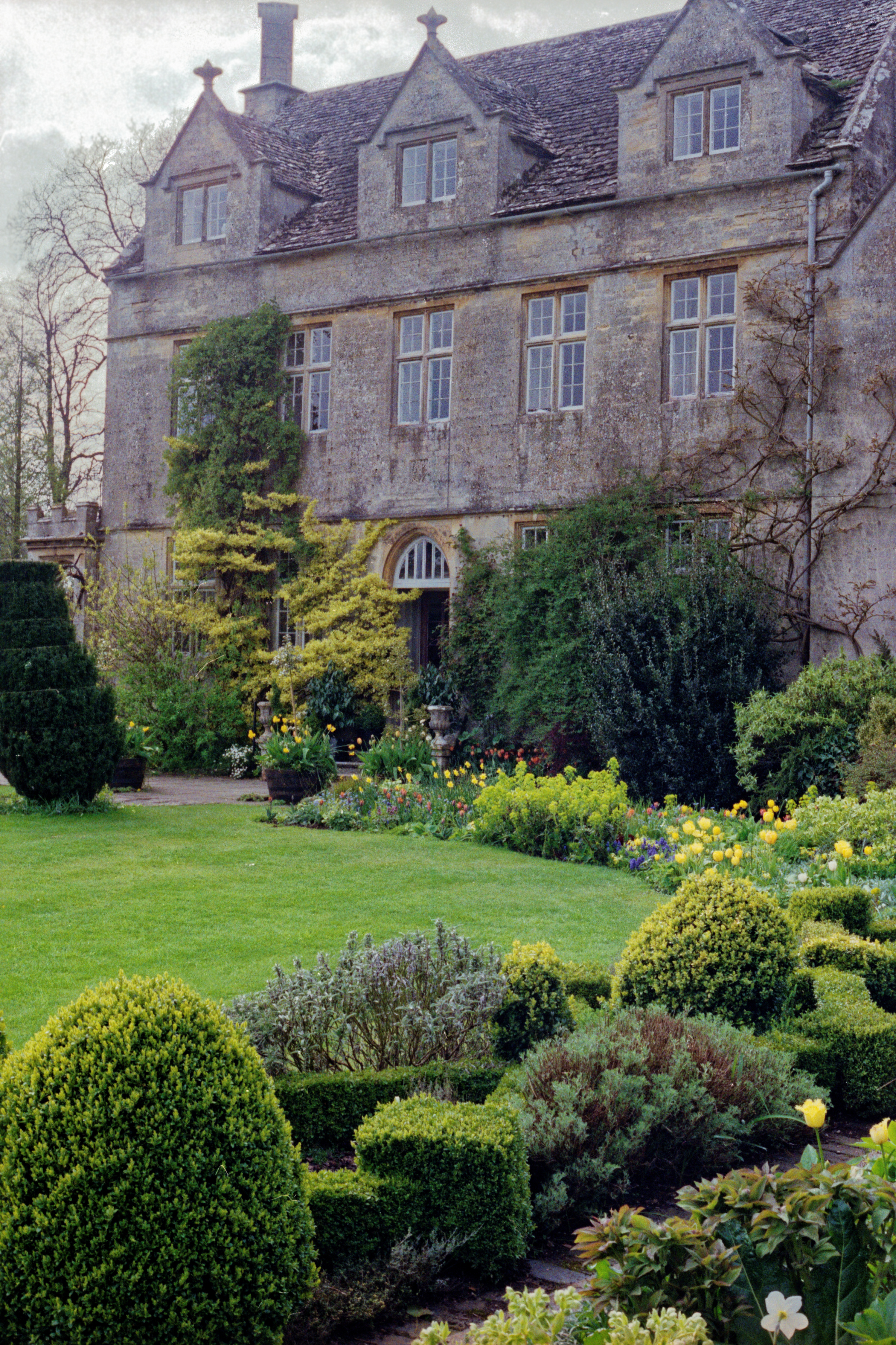 1992 Spring photograph from the gardens at the west of Barnsley House, at the time Rosemary Verey was in residence and directly caring for the garden.Processing: SLR camera Kodak Gold ASA 200-2 film negative scanned with an Epson Perfection V800 using SilverFast 8 scan program, and optimized, cropped and spun with DxO OpticsPro 10 Elite and Adobe Photoshop CS2.